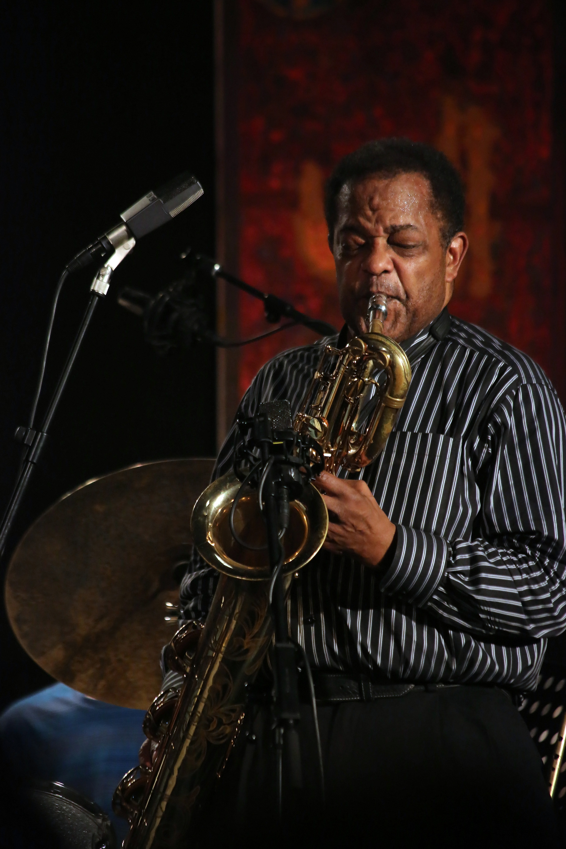 Mansur Scott (voc, perc), Howard Johnson (bar, tub, fl), Oliver Kent (p), Wolfram Derschmidt (b), Mark Johnson (dr) - INNtöne Jazzfestival (Diersbach, Upper Austria)